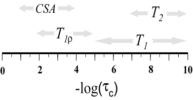 Experimentos de tempo de correlação molecular para RMN